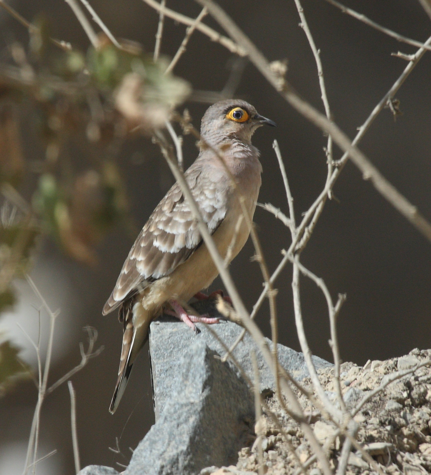 Bare-faced Ground-Dove (Metriopelia ceciliae) in Peru (cropped photo)